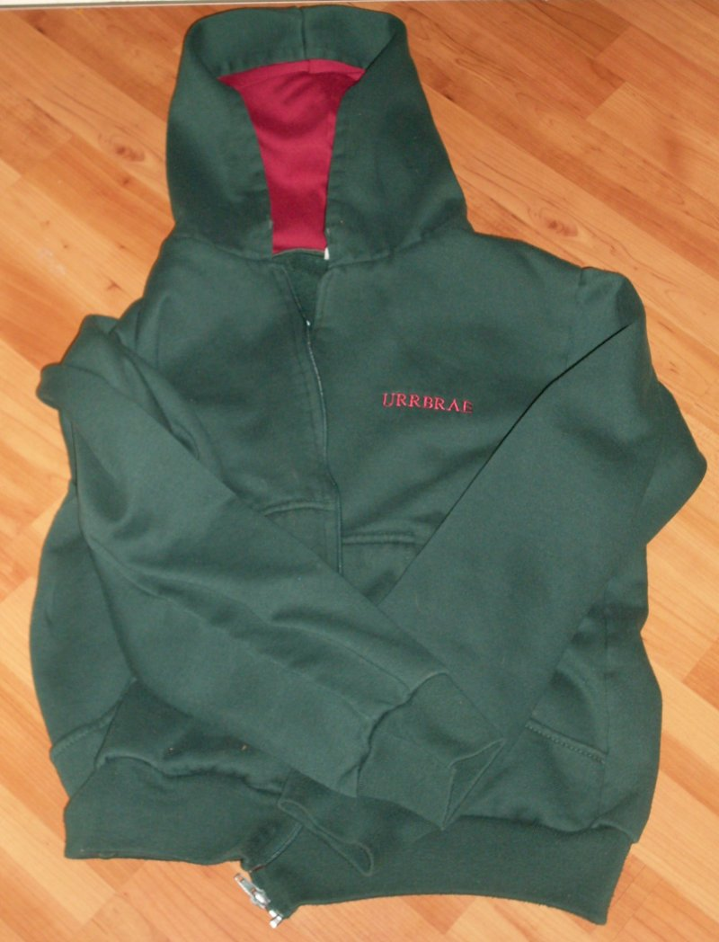 UAHS Jumper